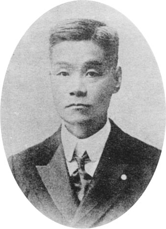 Aritaka Kumamoto, 1st director of the Nagasaki Higher Commercial School.